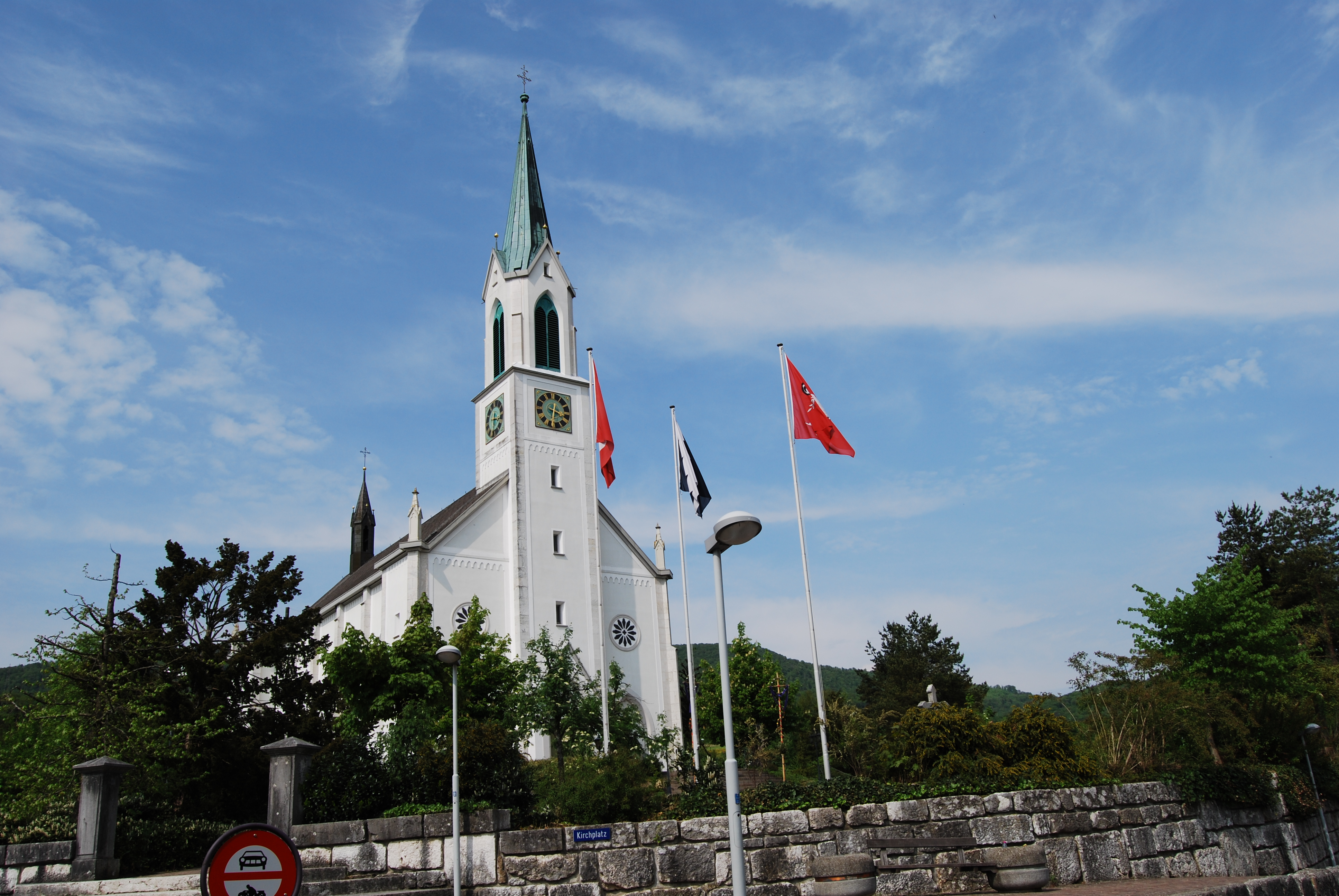 Catholic church of Hägendorf, canton of Solothurn, Switzerland